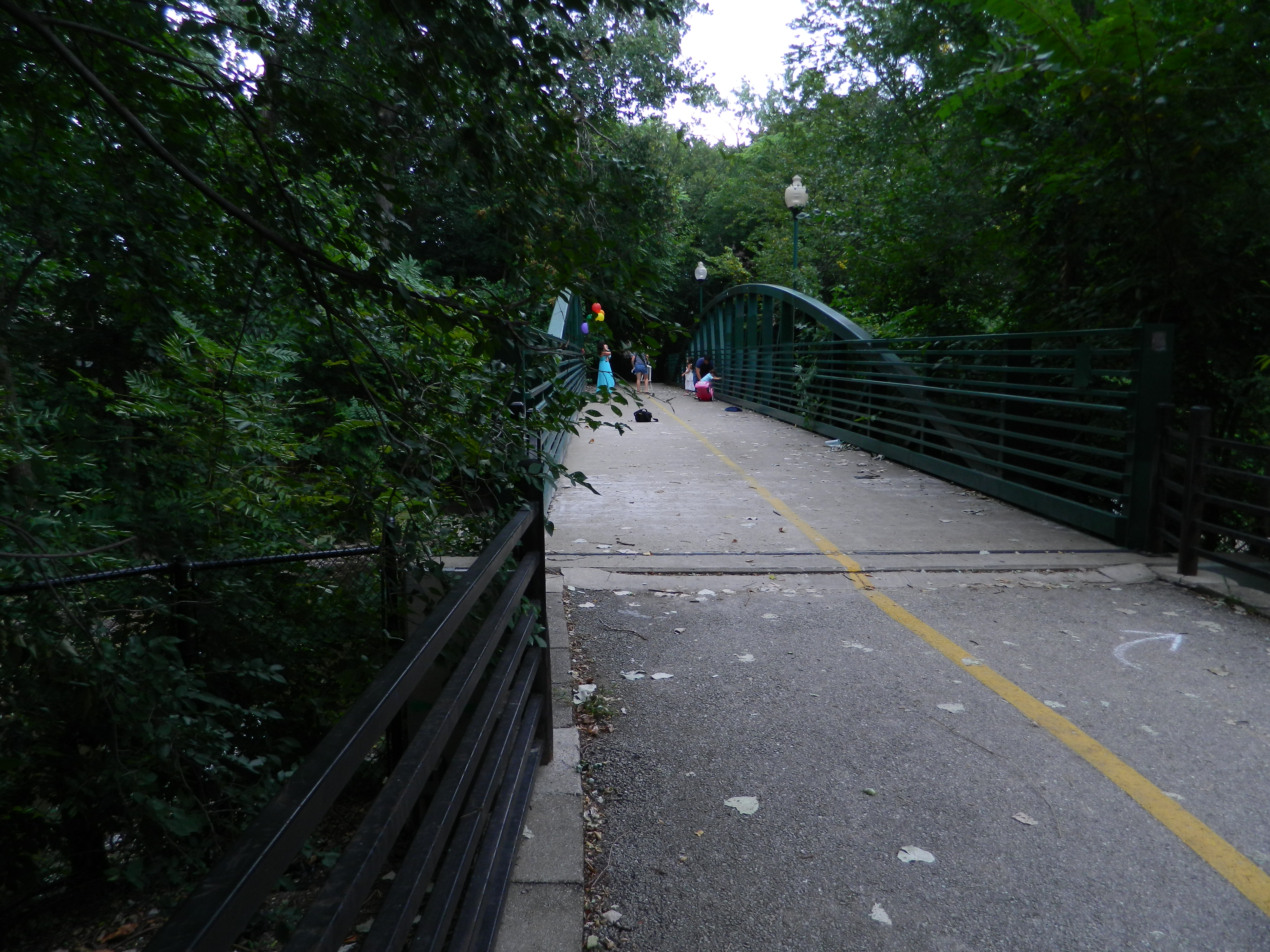 The Carmen Avenue Connector, a 2003 pedestrian bridge over the North Branch of the Chicago River in Eugene Field Park, Chicago.